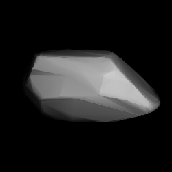 3D convex shape model of 698 Ernestina, computed using light curve inversion techniques. J. Hanuš, J. Ďurech, M. Brož, B. D. Warner (June 2011). "A study of asteroid pole-latitude distribution based on an extended set of shape models derived by the lightcurve inversion method". Astronomy and Astrophysics 530: A134. ISSN 0004-6361. arXiv